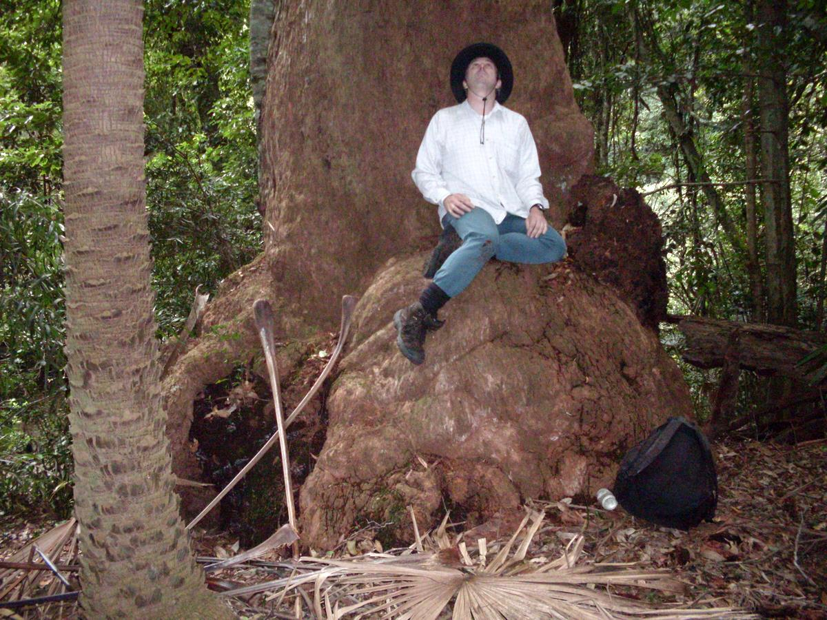 this large tree was identified by A.G. Floyd as Eucalyptus botryoides. Hacking River, NSW, Australia. Person photographed is Peter Woodard. Plant to the left is the Cabbage Tree Palm, (Livistona australis)